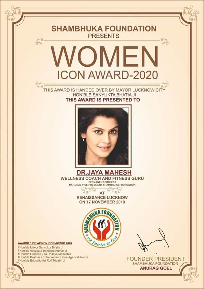 Vise President of Shabhuka Foundation